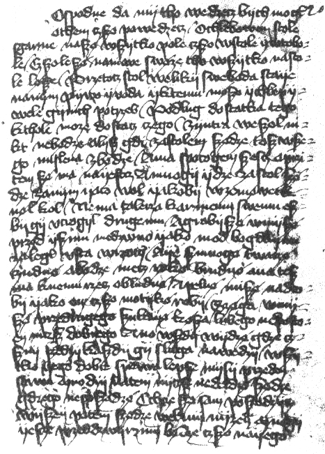 Manuscript of the "O zachowaniu się przy stole" from about 1413-1415.